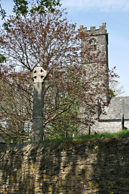 Stone Cross and St Hugh's Church in Quethiock, Cornwall, UK